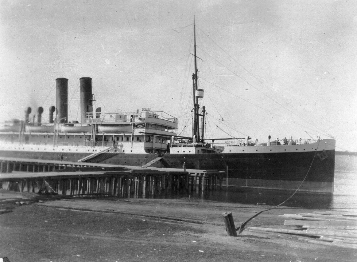 French ship for transport of troops, at Arkhangelsk This media file is produced by Wikipedian in Residence in Category:Wikipedian in Residence at DARM in 2016.